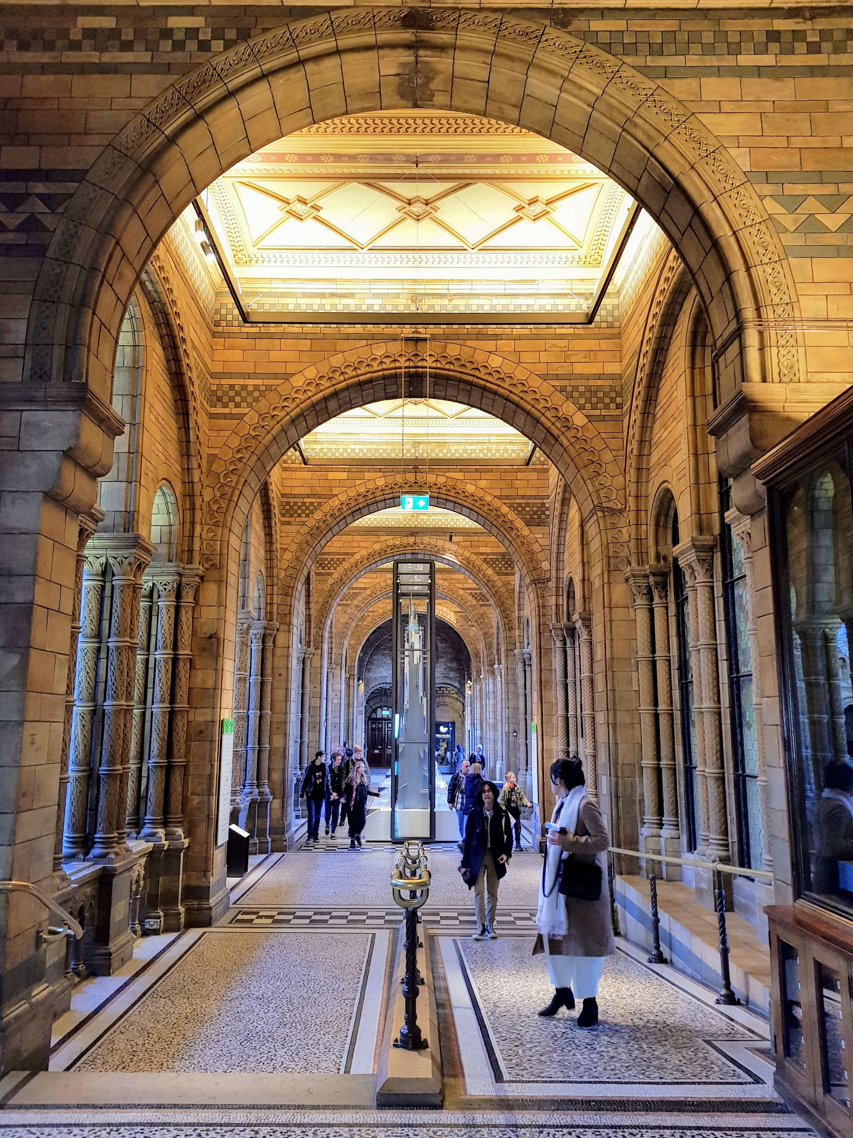 Central Hall, Natural History Museum, London